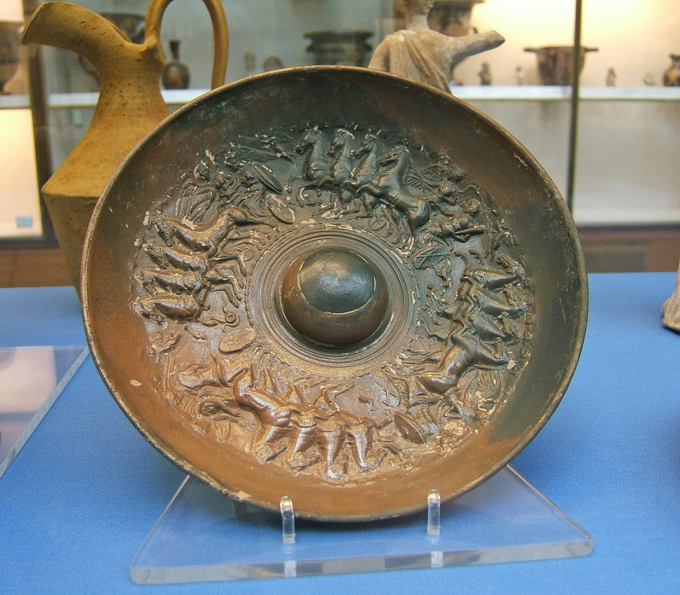 Campanian ware: black-slipped mould-made phiale (libation vessel) with a scene of chariots and deities inspired by contemporary silver vessels. Made in Campania circa 300 BC. British Museum, London. GR 1839.11-9.37a